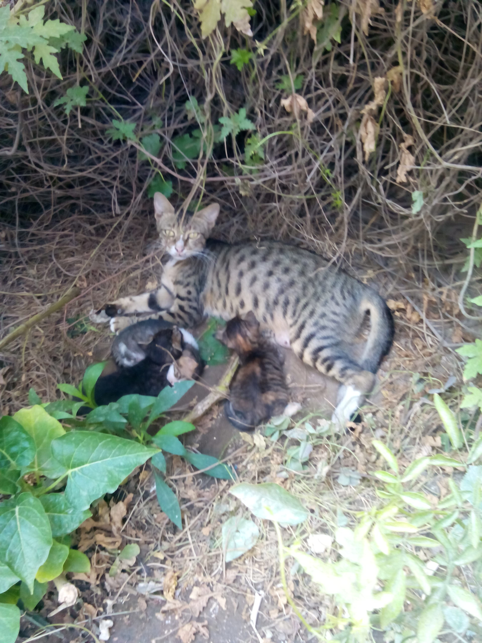 cats in the garden, a mum with 3 kittens.